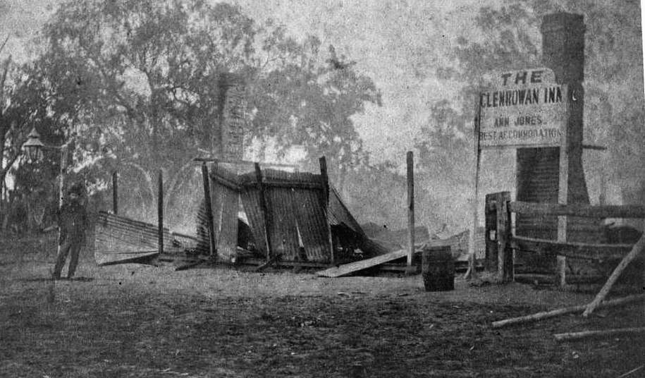 Shows the burnt remains of the Jones's Hotel, the scene of the final confrontation between Ned Kelly and the Victorian Police. A sign still stands: "The Glenrowan Inn, Ann Jones, best accommodation".